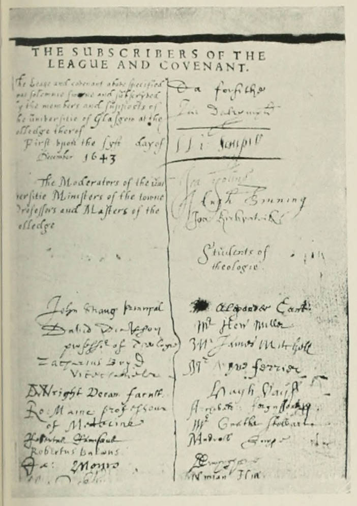 Facsimilie of signatures on covenant of 1643 from J. K. Hewison's The Covenanters volume 1